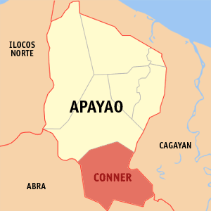 Map of Apayao showing the location of Conner